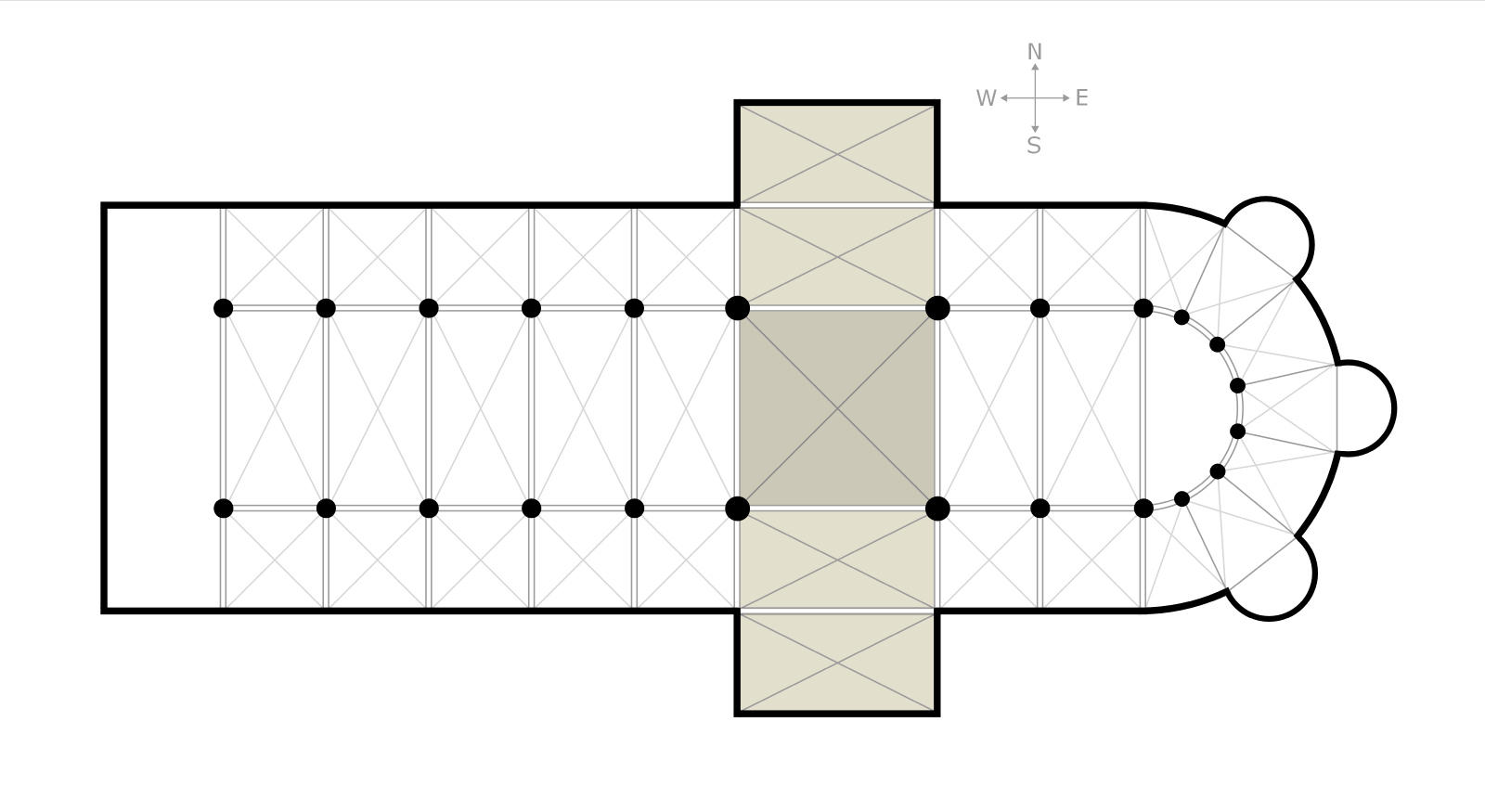 Cathedral ground plan Shaded area: nave Darker shading: crossing Note: This is not an exact representation of the proportions or technical elements.